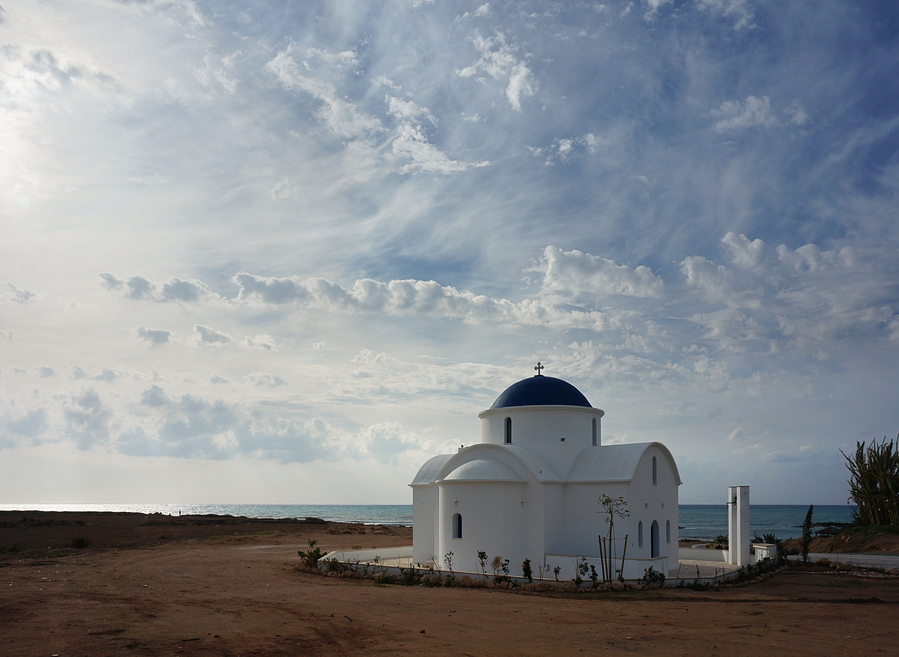 Saint Nicholas church in Paphos, Cyprus